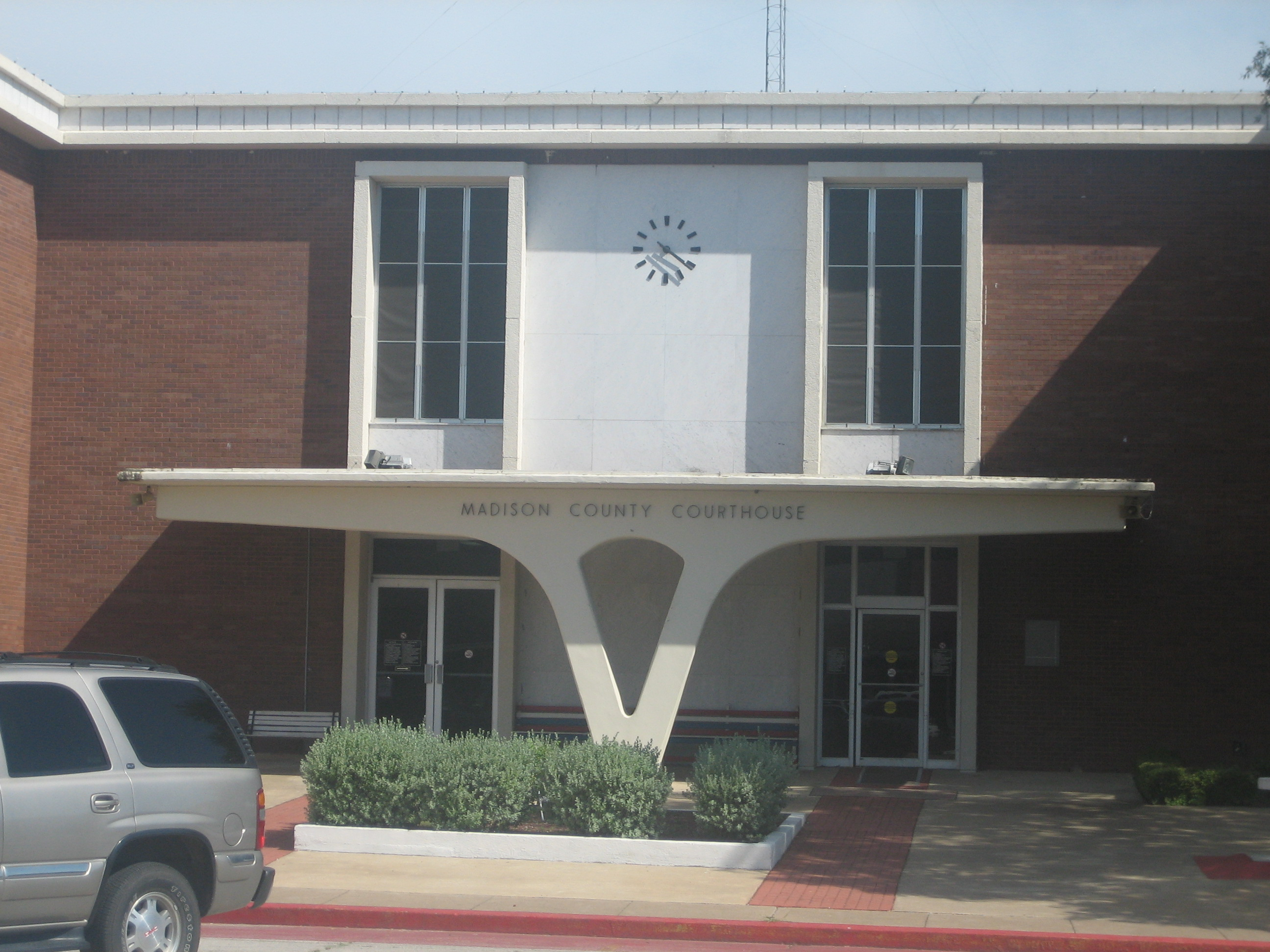 The Madison County Courthouse in Madisonville, Texas, United States.